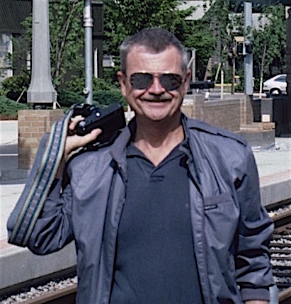 Rail-transit writer and publisher Mac Sebree in Portland, Oregon, in June 1986, during a visit to see the new light rail system then under construction (and not yet opened). The photo was taken at the site of one of the stations on East Burnside Street.